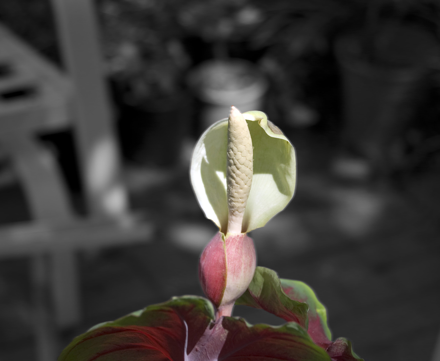 A Caladium blooms in our yard.